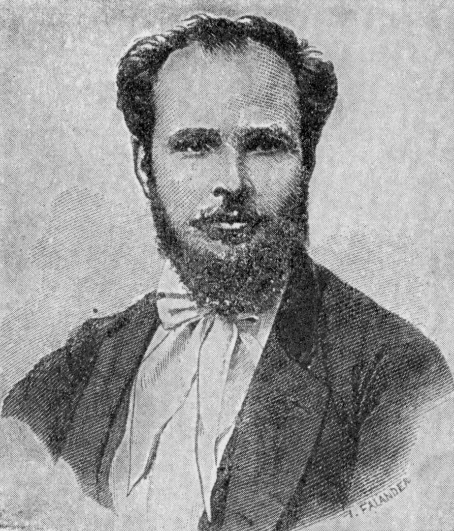 Johannes Takanen (1849–1885), Finnish sculptor.